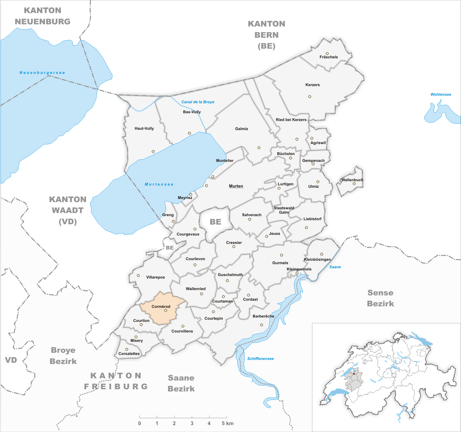 Municipality Comérod Artist: Tschubby